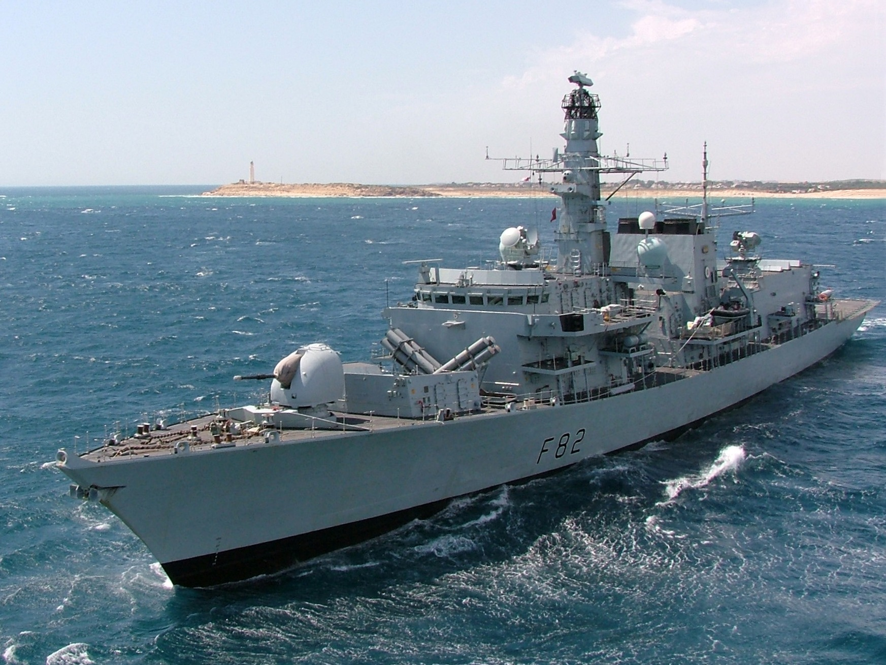 HMS Somerset at Cape Trafalgar